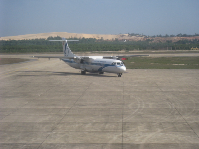 Dong Hoi Airport, Dong Hoi, Quang Binh, Vietnam